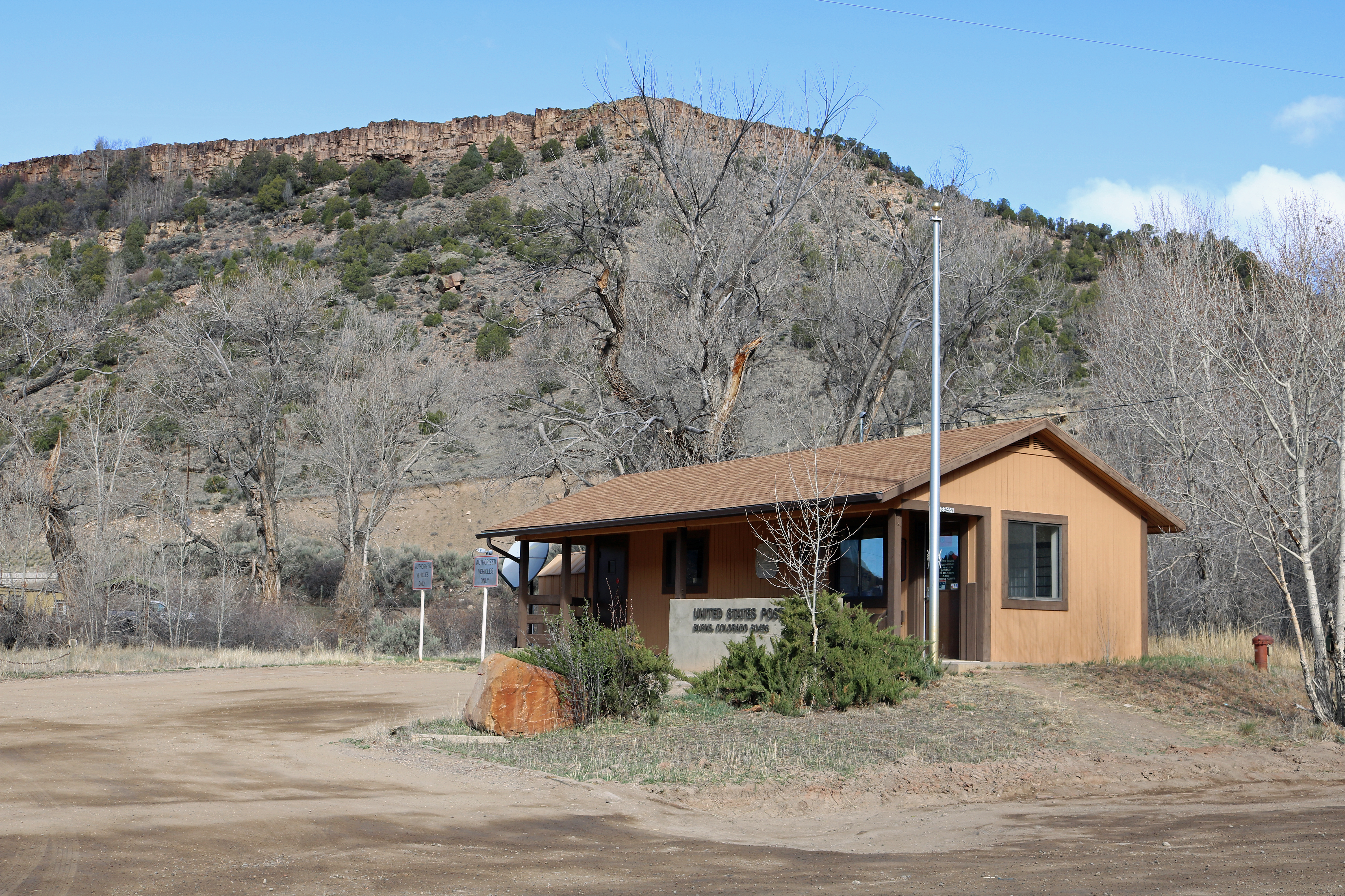 The Burns, Colorado post office. Burns is in Eagle County, and the post office is on Colorado River Road in Burns.